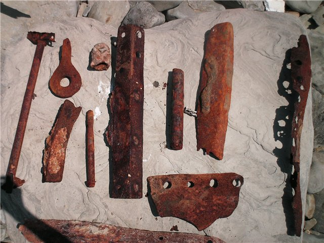 Elpidifor-415